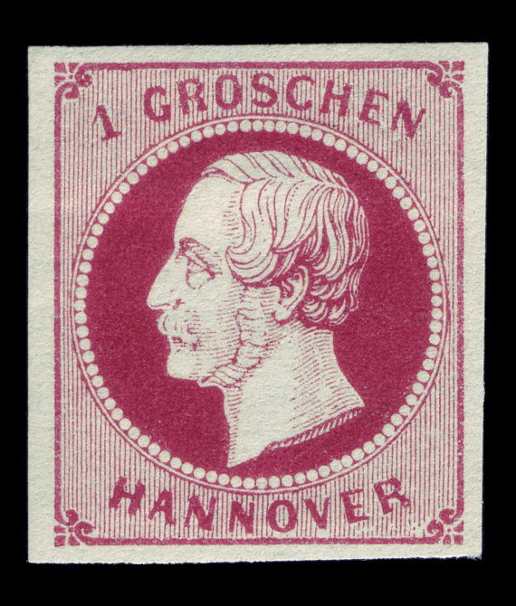 series of stamps of Hannover, King Georg V of Hannover (1819-1878) Graphics by Brehmer Ausgabepreis: 1 Groschen First Day of Issue / Erstausgabetag: Februar 1859 Michel-Katalog-Nr: 14 (Altdeutschland (Hannover))